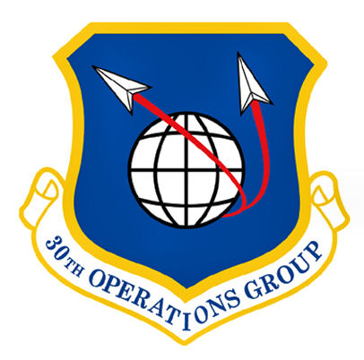 Emblem of the USAF 30th Operations Group